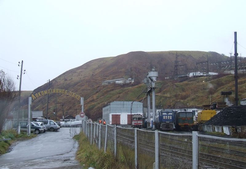 Локомотивное депо Холмск